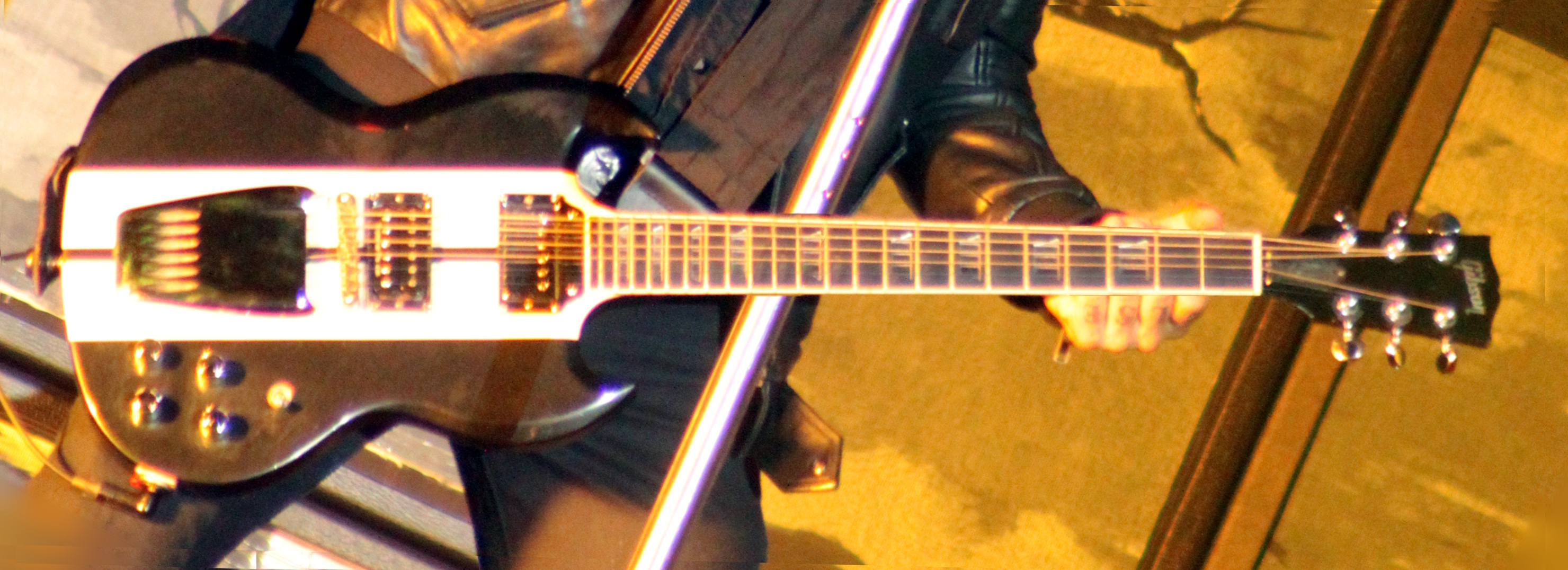 Gibson SG GT played by Michael Poulsen of Volbeat, at Hellfest 2013, Clisson Original description